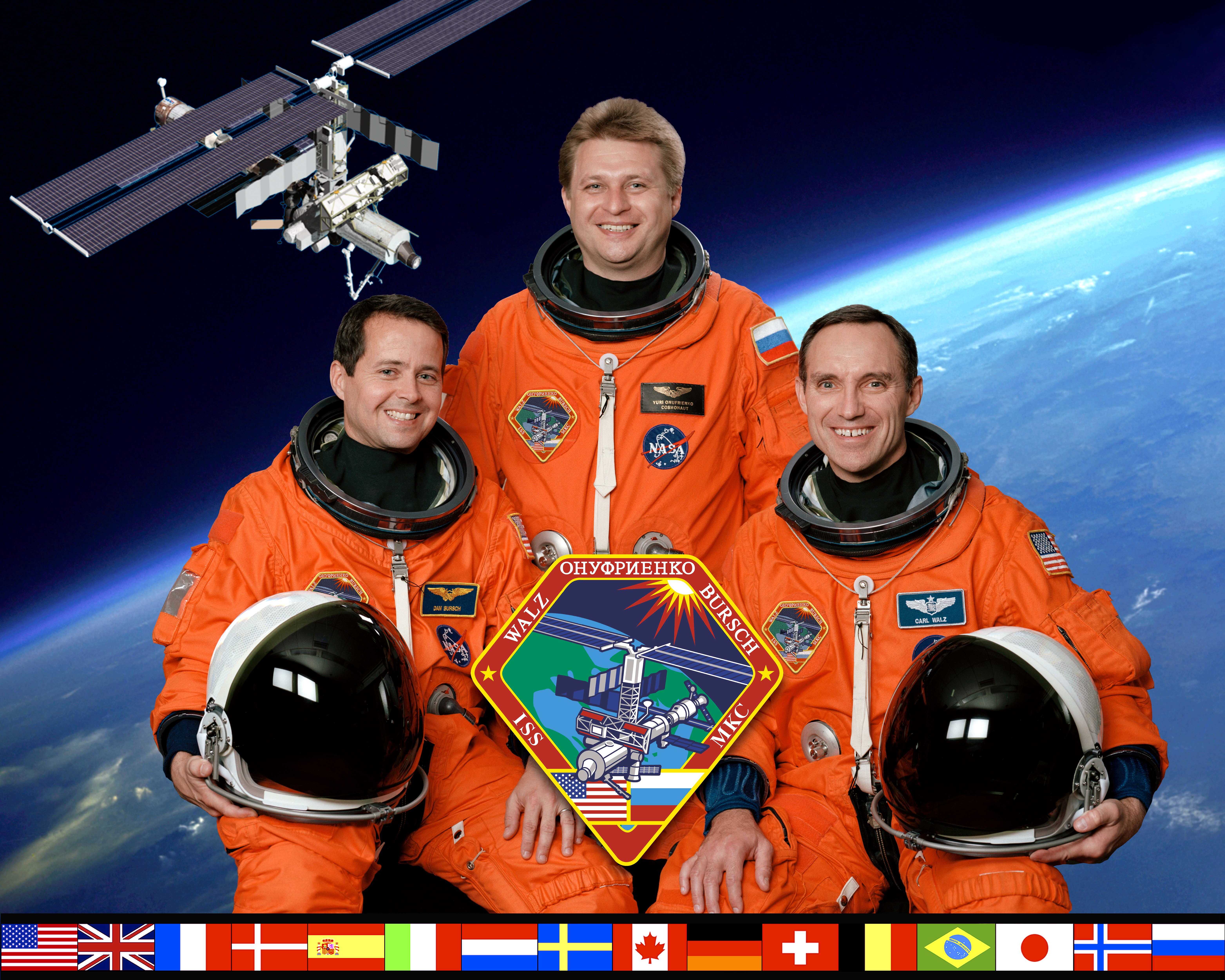 Expedition Four crew members take a break from training for their scheduled upcoming stay aboard the International Space Station (ISS) to pose for the traditional pre-flight crew portrait. Cosmonaut Yuri I. Onufrienko (standing at center), mission commander, is flanked by astronauts Daniel W. Bursch (left) and Carl E. Walz, both flight engineers. The national flags of the International Partners are at the bottom of the portrait.